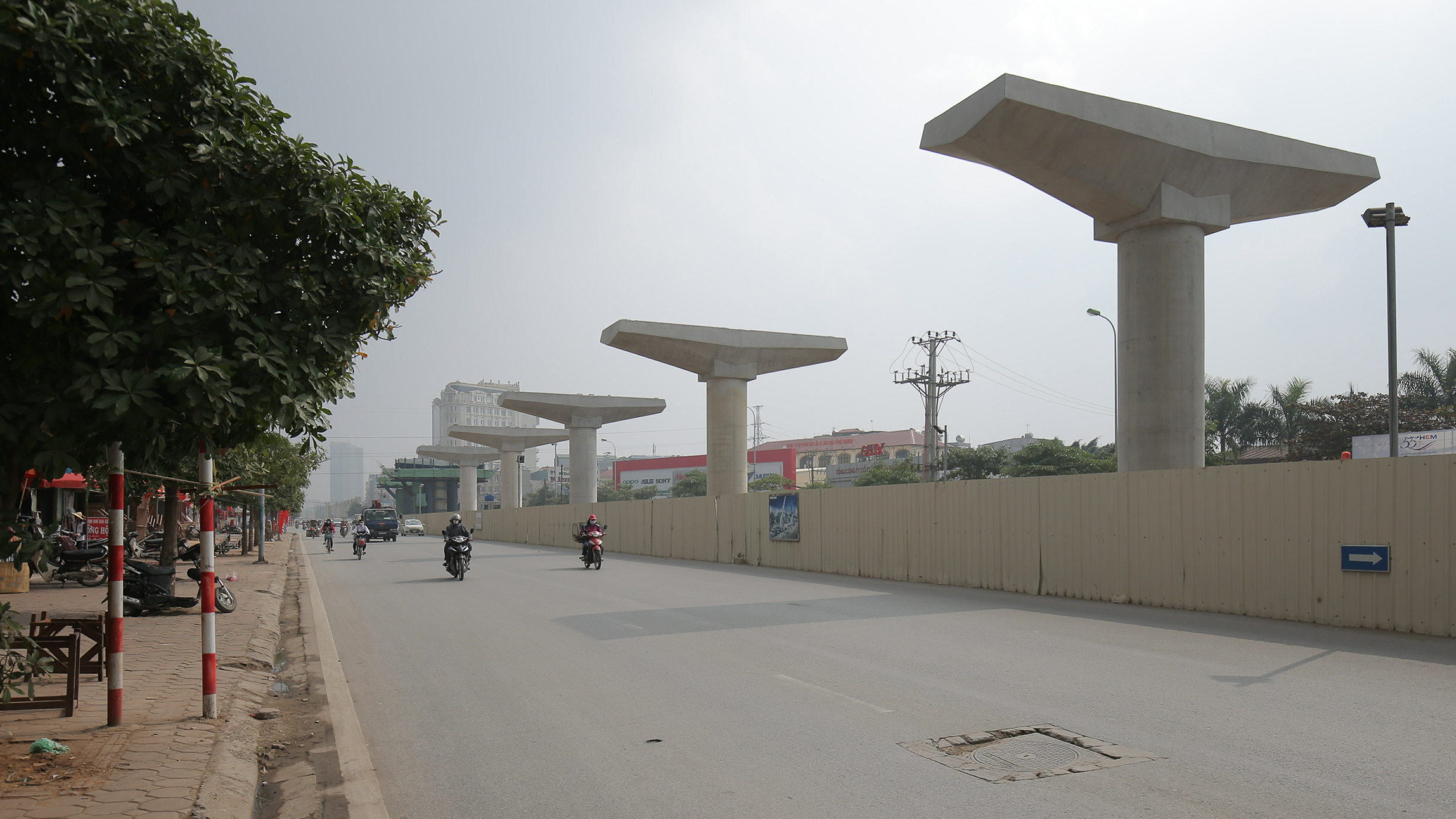 Hanoi metro line 2 (Nhổn - ga Hà Nội) construction works